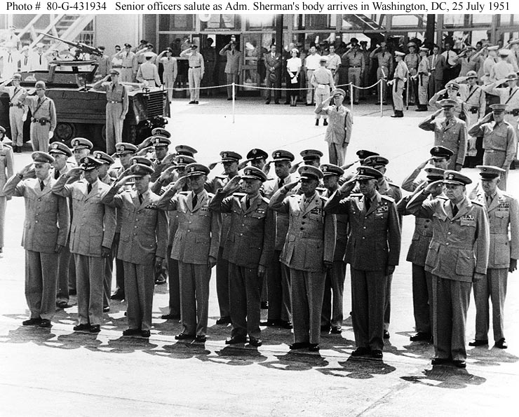 Death of Admiral Forrest P. Sherman, July 1951 Senior officers salute as Adm. Sherman's body arrives at Washington National Airport from Naples, Italy, on 25 July 1951, three days after his death. Standing in the front row are (from left to right): General Omar Bradley, U.S. Army General Hoyt S. Vandenberg, USAF General J. Lawton Collins, U.S. Army Admiral Lynde D. McCormick, USN Fleet Admiral Chester W. Nimitz, USN General Clifton B. Cates, USMC Admiral Thomas C. Kinkaid, USN Admiral William M. Fechteler, USN.